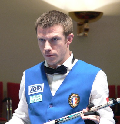 French carom billiards player